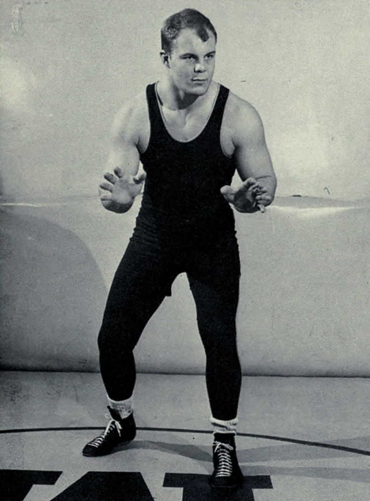 Photograph of Dave Porter